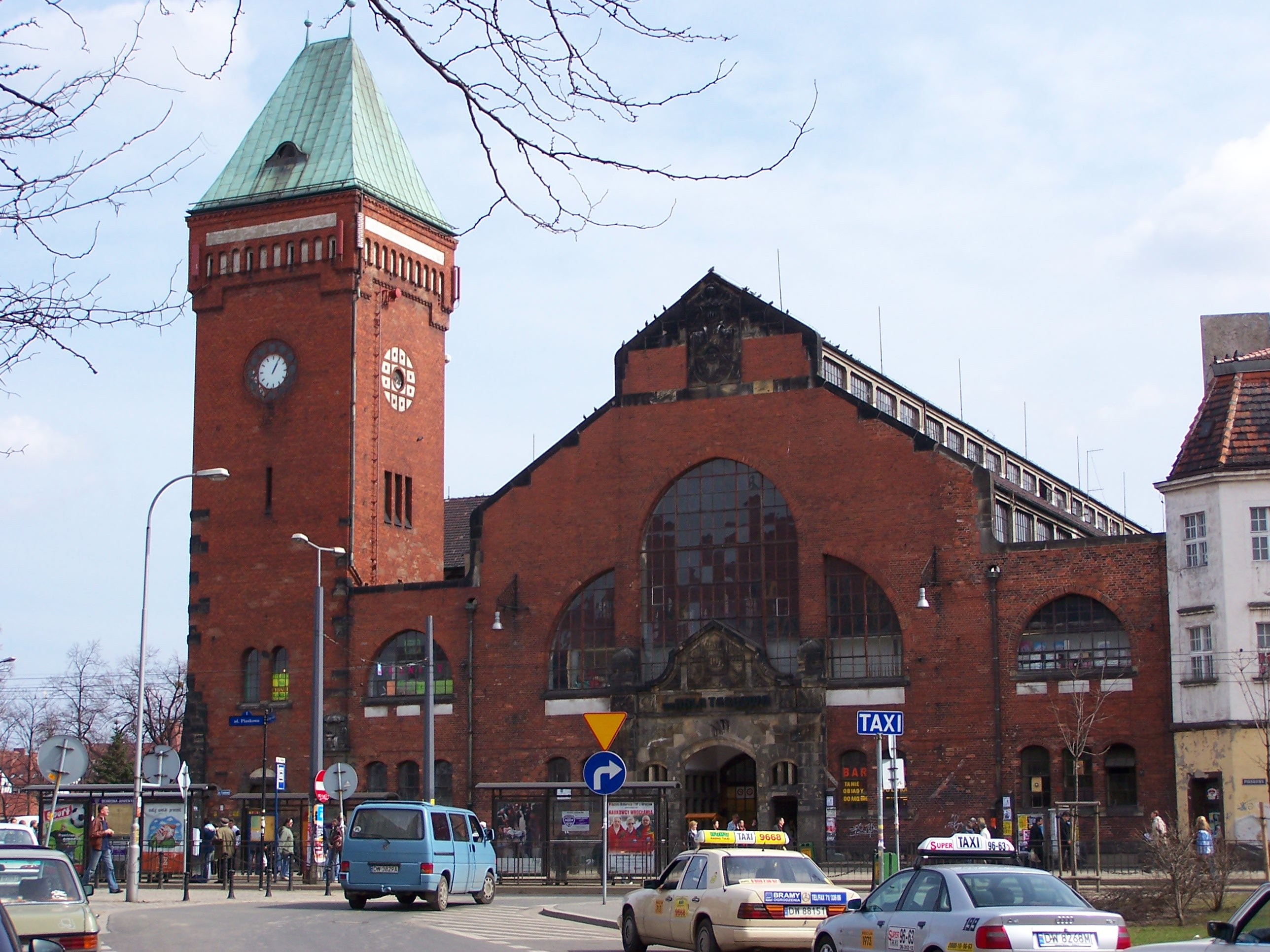 Market Hall in Wrocław (Poland).